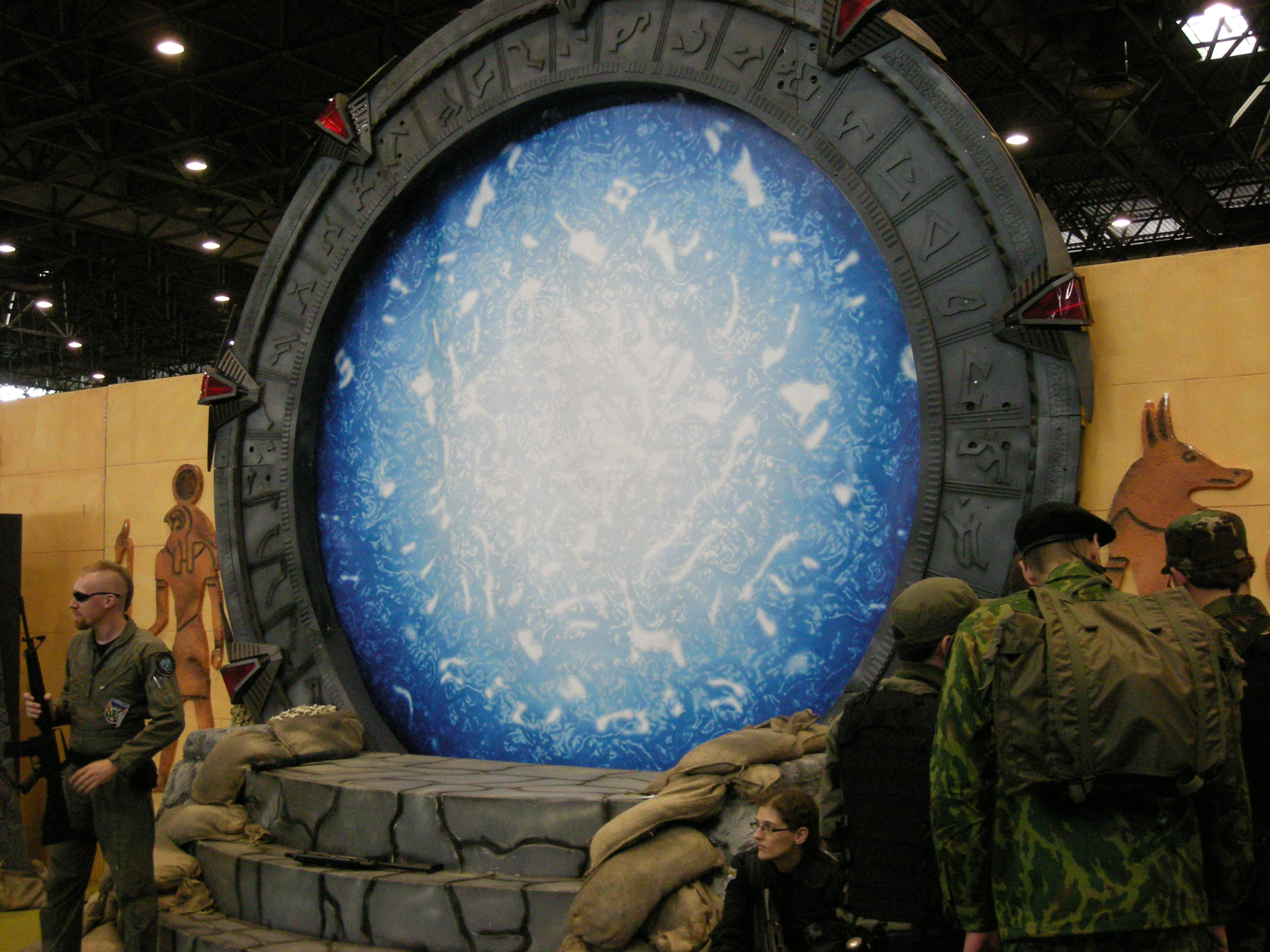 Stargate in Japan Expo 2009